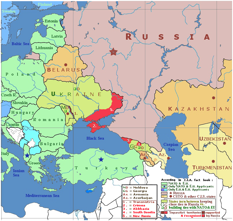 Derivative work (actualised since Witt Raczka, Aux confins de l'Europe de l'est : des rivages baltiques au pied des Carpates, L'Harmattan, 2009 and Valerii Korovin, End of the Ukraine project, Sankt-Petersburg, Piter, 2014 and since File:Map_of_the_war_in_Donbass.svg) of my first map Geopolitics South Russia.png uploaded march 2014, re-uploaded in a better version (File:Geopolitics_South_Russia2.png) by Fakirbakir & Constantzeanu (but later blocked by Deniss, according with the russian government's official PoV about the Ukrainian crisis).